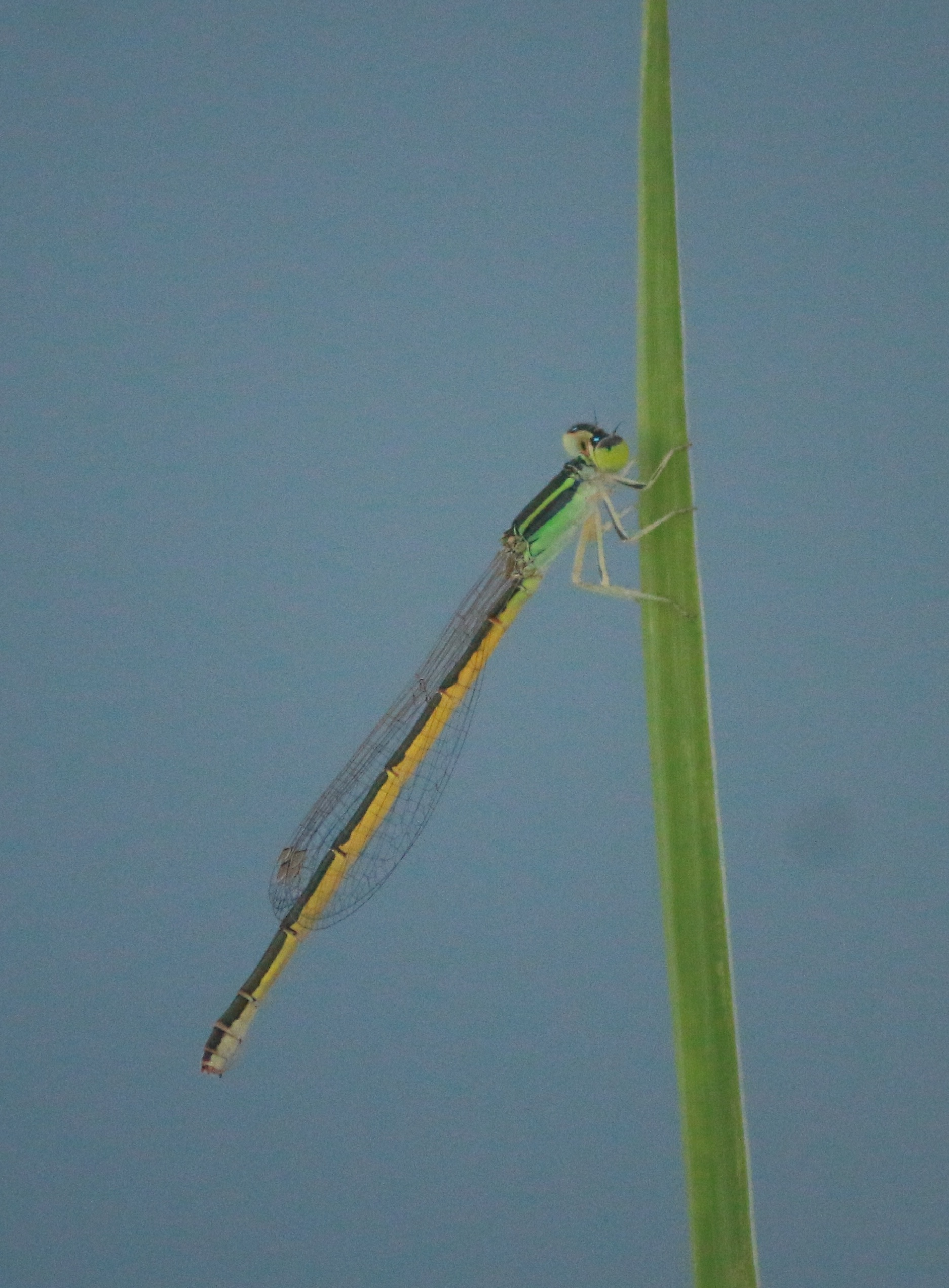 Ischnura rubilio ,Western Golden Dartlet